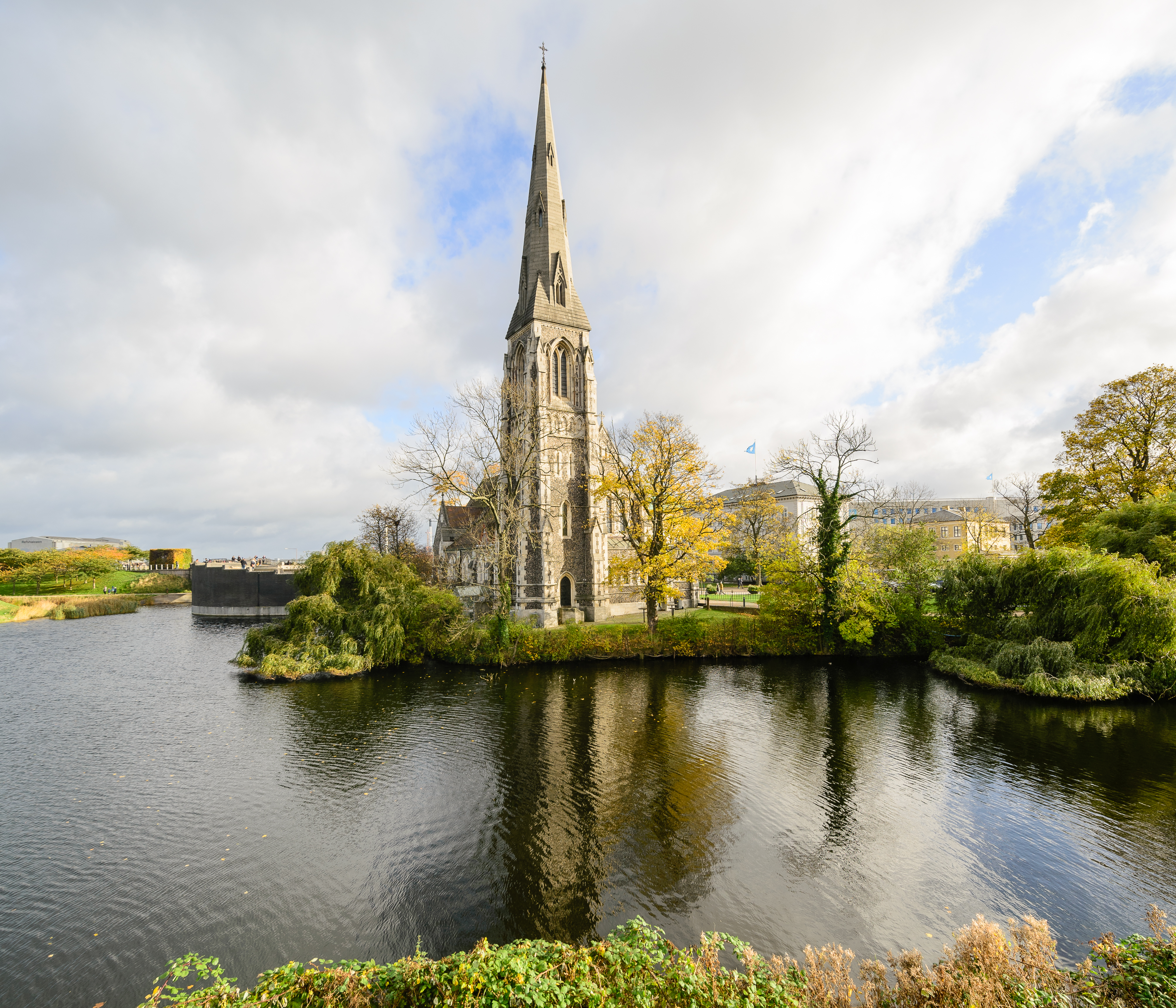 St Alban's English Church in Copenhagen, Denmark